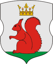 Coat of Arms of Bierastavica Vialikaja, Biełaruś